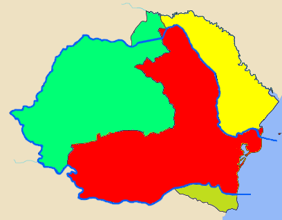 Red: "Old Kingdom of Romania" 1859-1913; Light green: bulgarian territory until 1913; Dark green: Austro-Hungarian territory until 1918; Yellow: Russian territory until 1917, Moldovan democratic republic 1917-1918; all this: "Greater Romania" 1919-1940; Dark blue line: border of Romania since 1948.